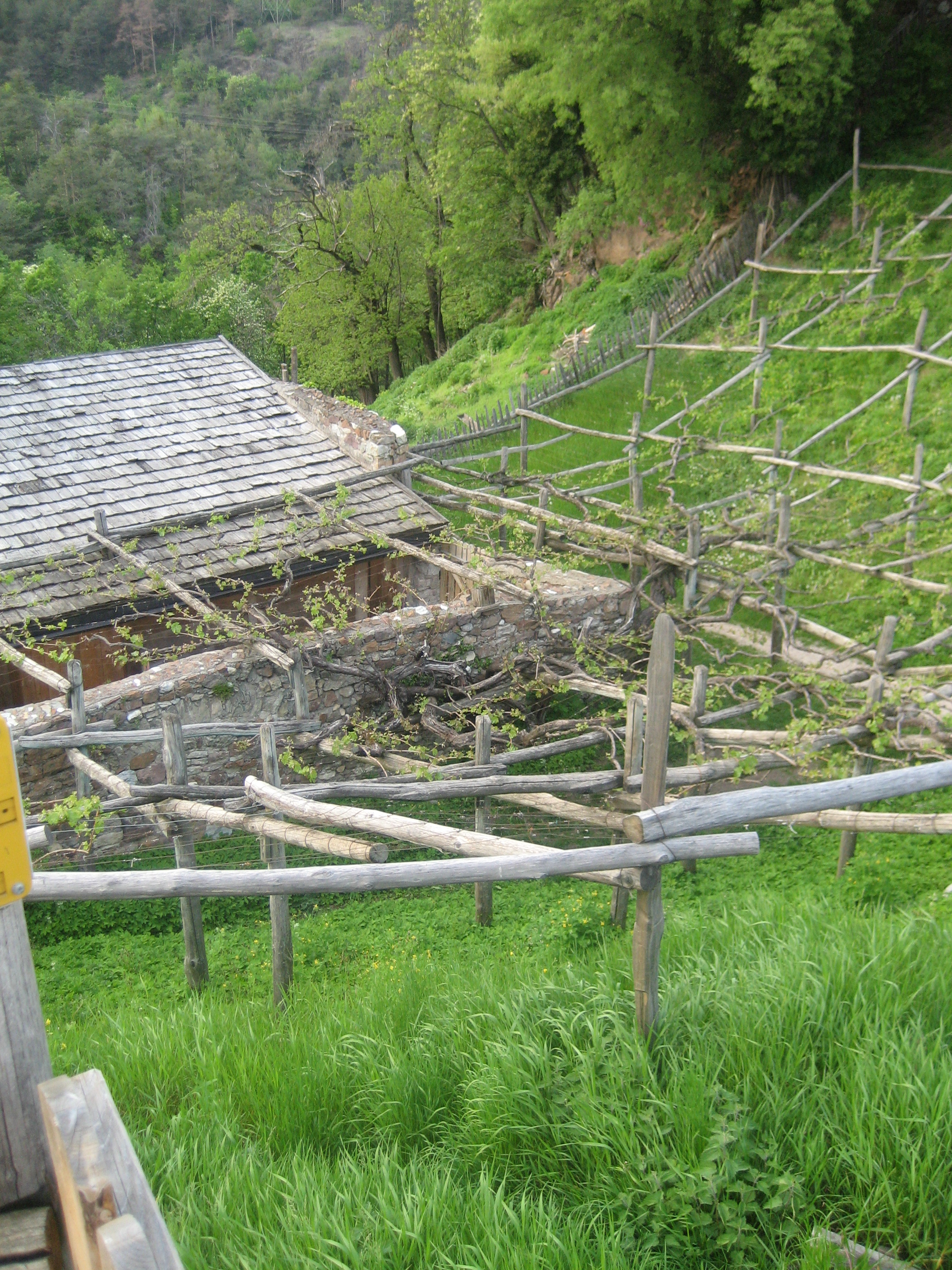 Vineyard Versoaln near Katzenzungen in South Tyrol in May 2008